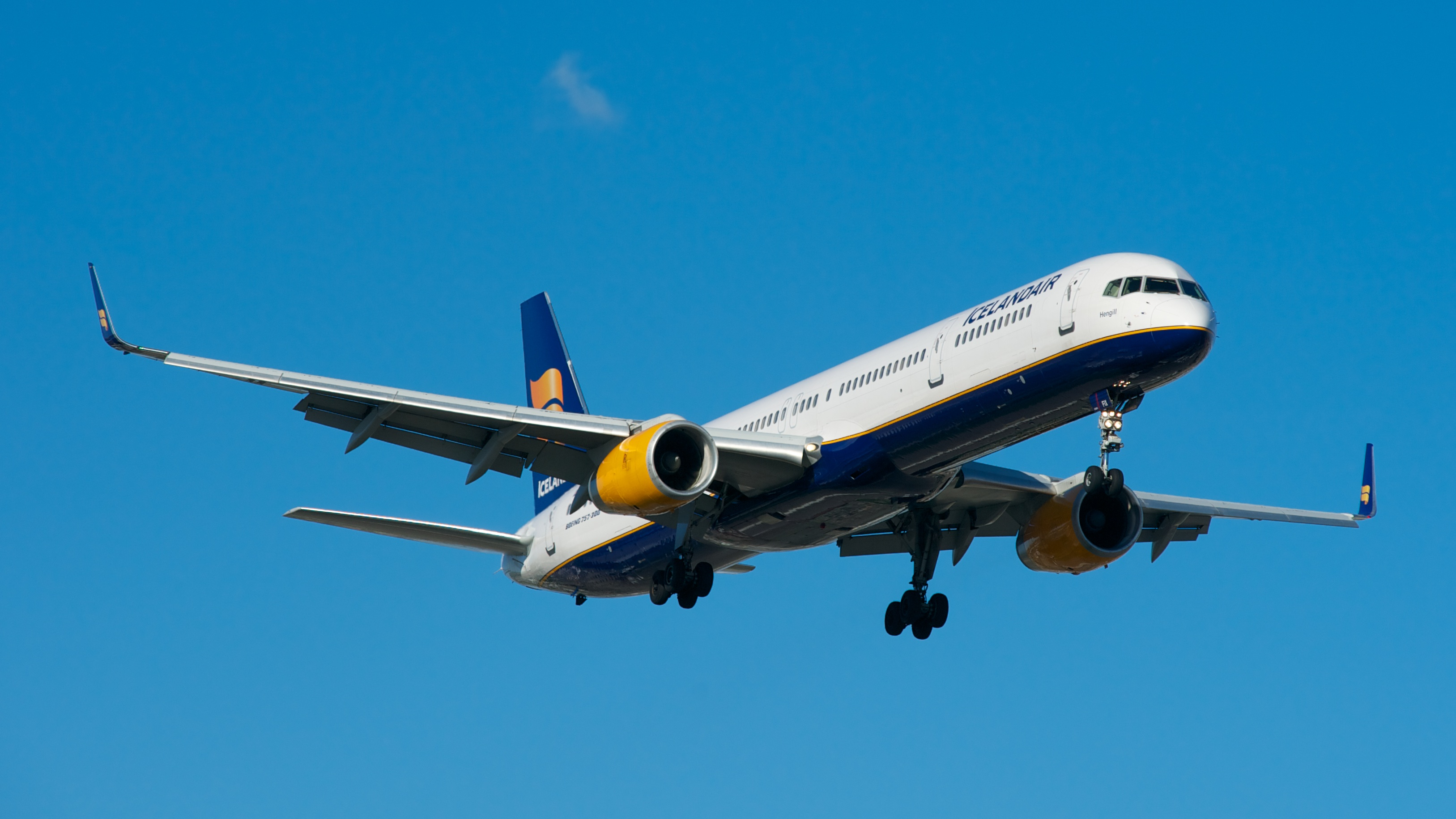 "Hengill" Landing Toronto-Pearson